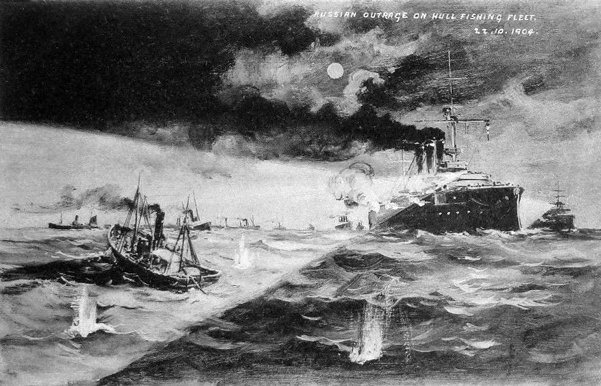 Russian Outrage on the Hull fishing fleet on 22 October 1904, otherwise the 'Dogger Bank incident', the 'North Sea Incident', or the 'Incident of Hull'. A Valentine Series image.